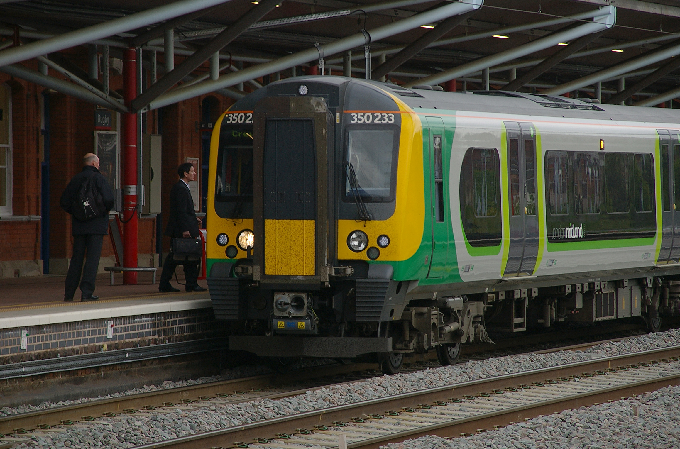 London Midland 350233 at Rugby railway station.